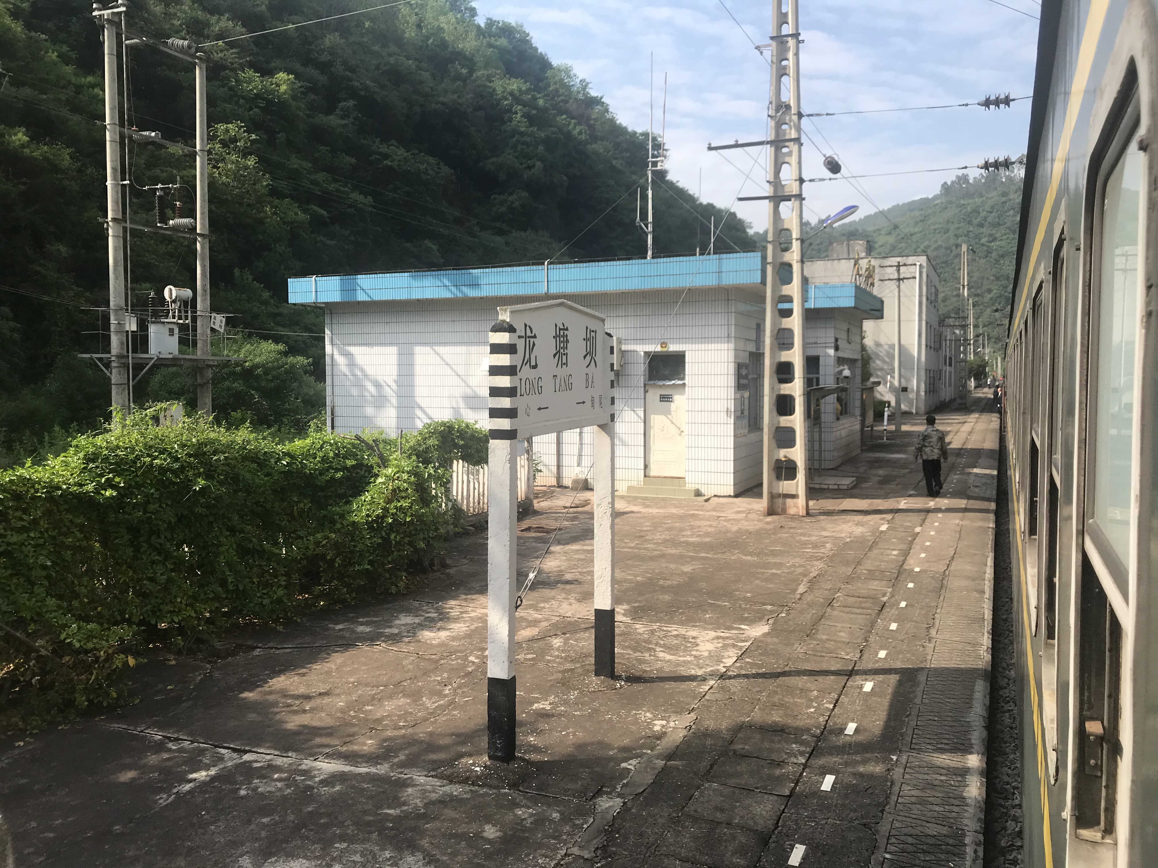 Taken beside the train door before it closes with the request.